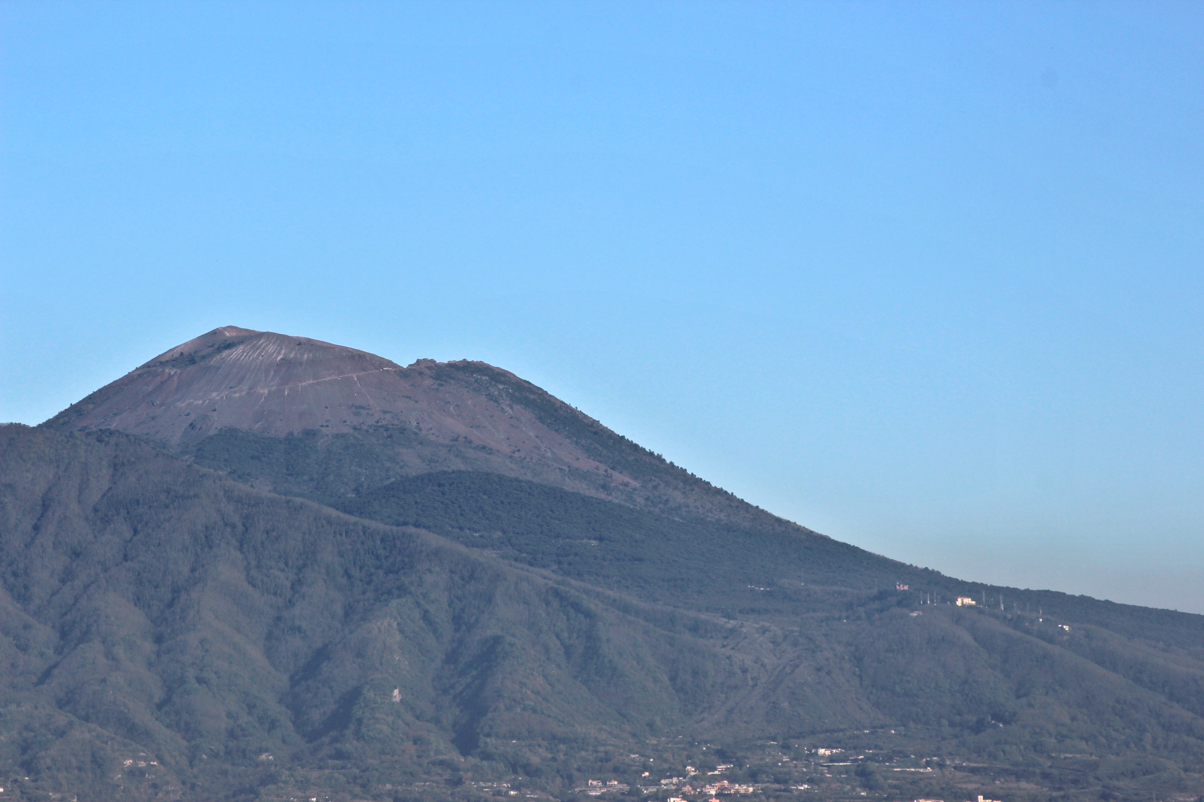 Una veduta del Vesuvio da Nord